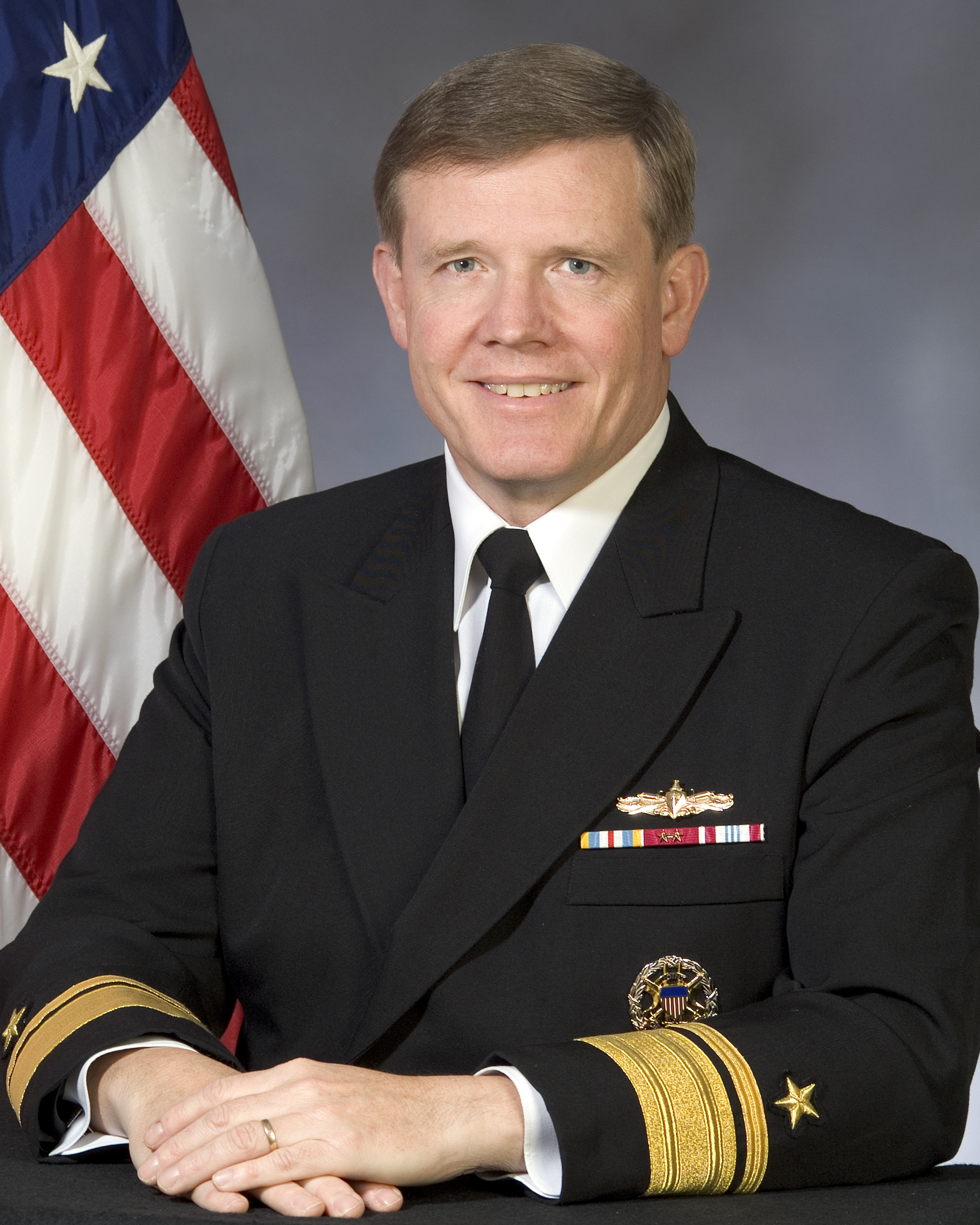 Rear Admiral Robert D. Reilly Jr. as Commander of the US Navy's Military Sealift Command. Image was accessed 17 April, 2007.